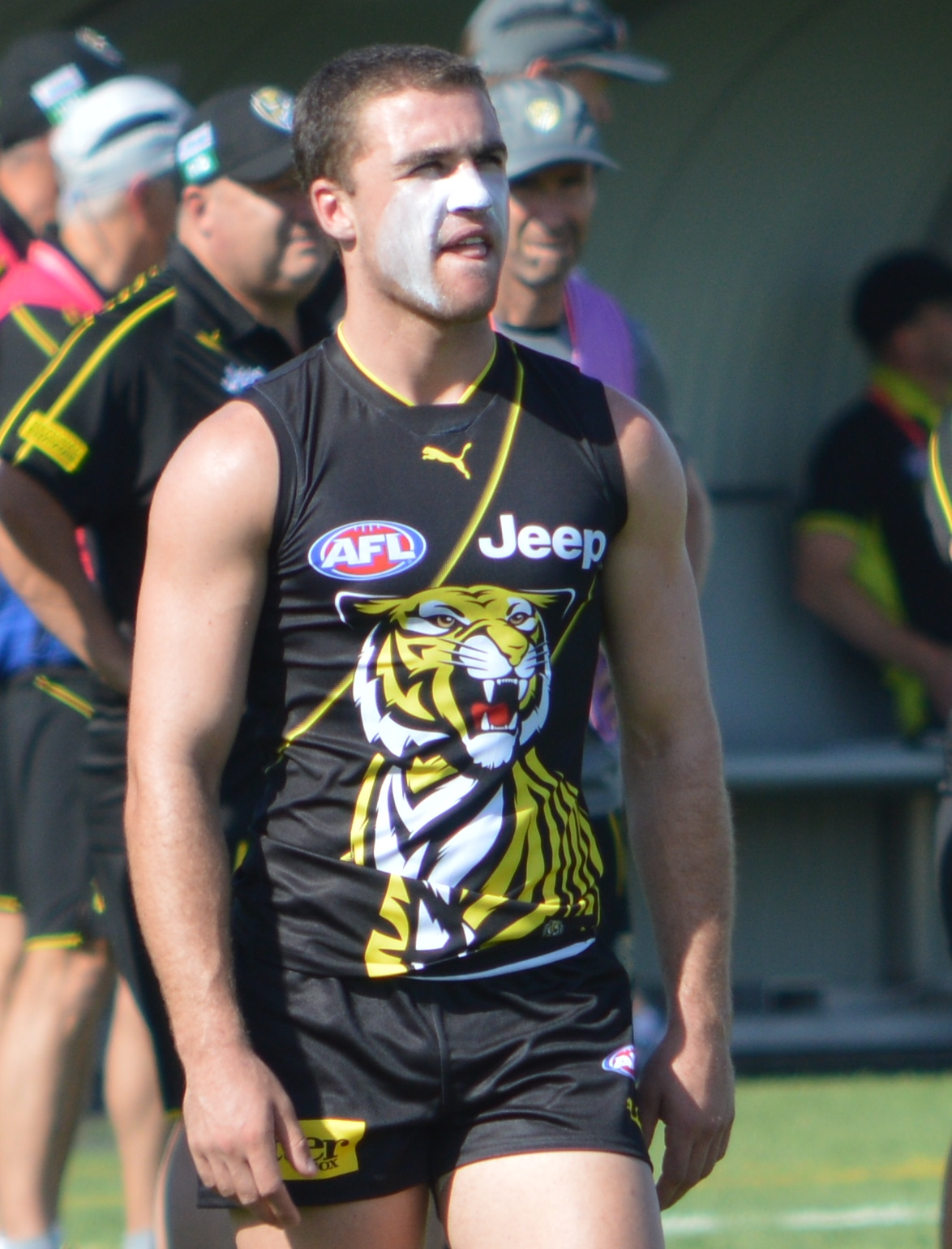 Jack Ross with Richmond during a JLT Community Series match against Melbourne in Shepparton in March 2019